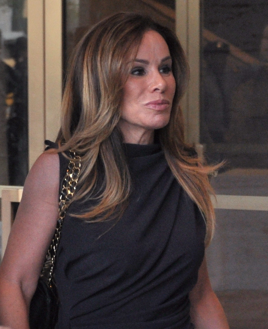 Melissa Rivers during New York Fashion Week 2012 This file has been extracted from another file: Joan Rivers and Melissa Rivers during NY Fashion Week 2012.jpg